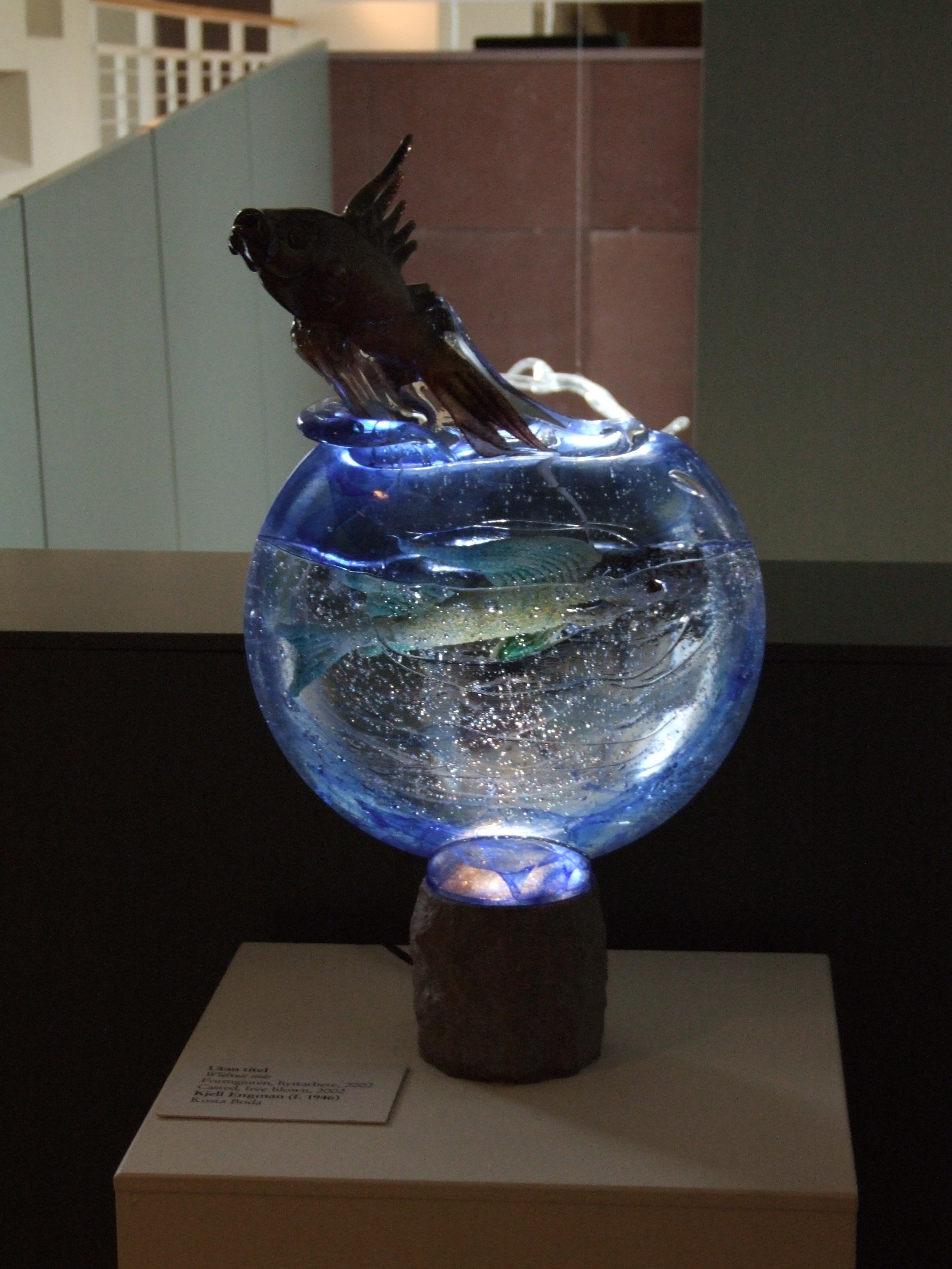 glass object by Kjell Engman of Kosta Boda/Sweden